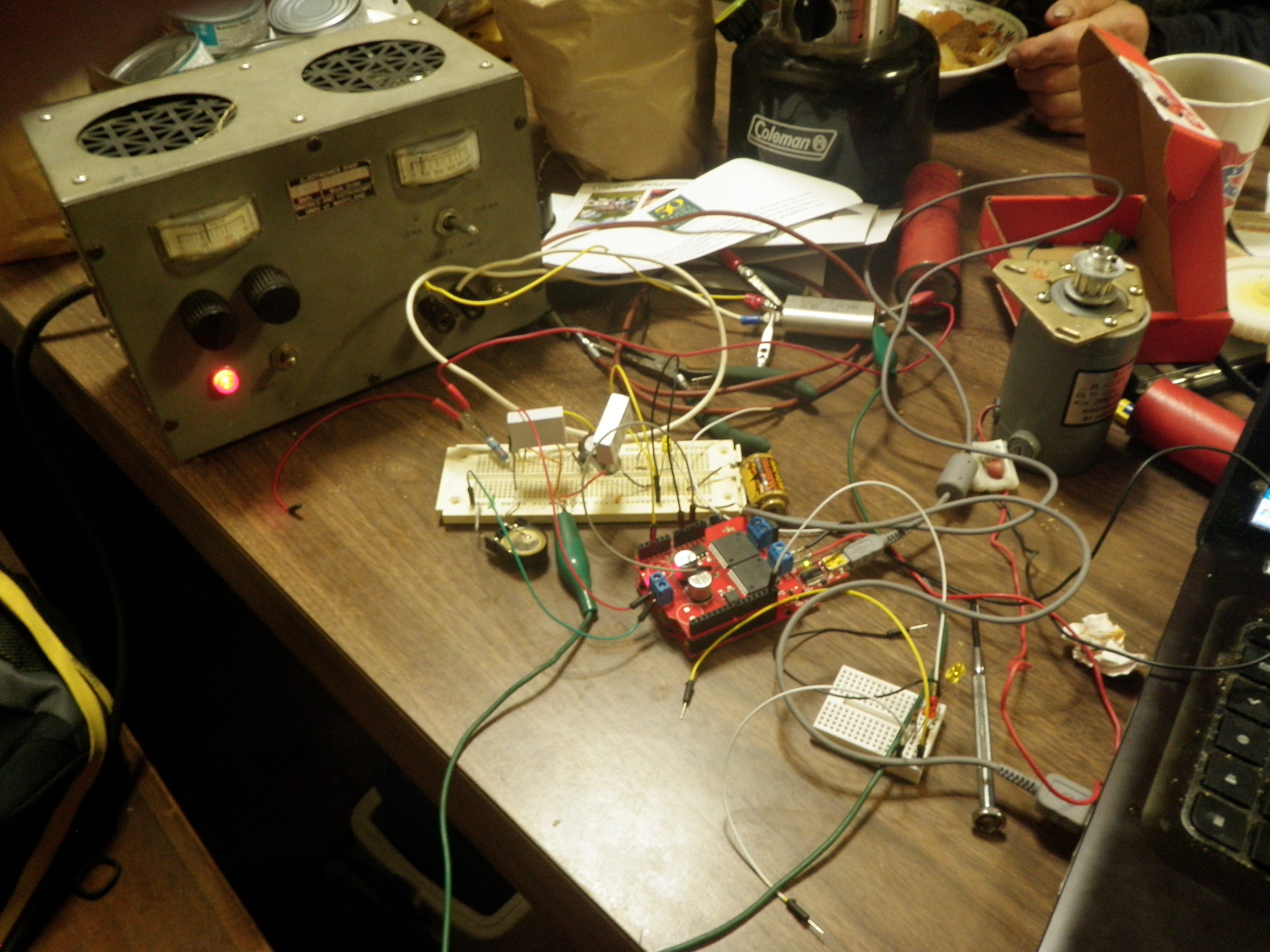 A circuit for running a motor based on a particular pattern of sounds. Black./white object to left of green clip lead is a piezoelectric loudspeaker being used as a sound sensor; large breadboard is an amplifier for the sensor signal; red circuitboard is an arduino and its motor shield; grey object in upper right is motor; small breadboard is indicator LED's.